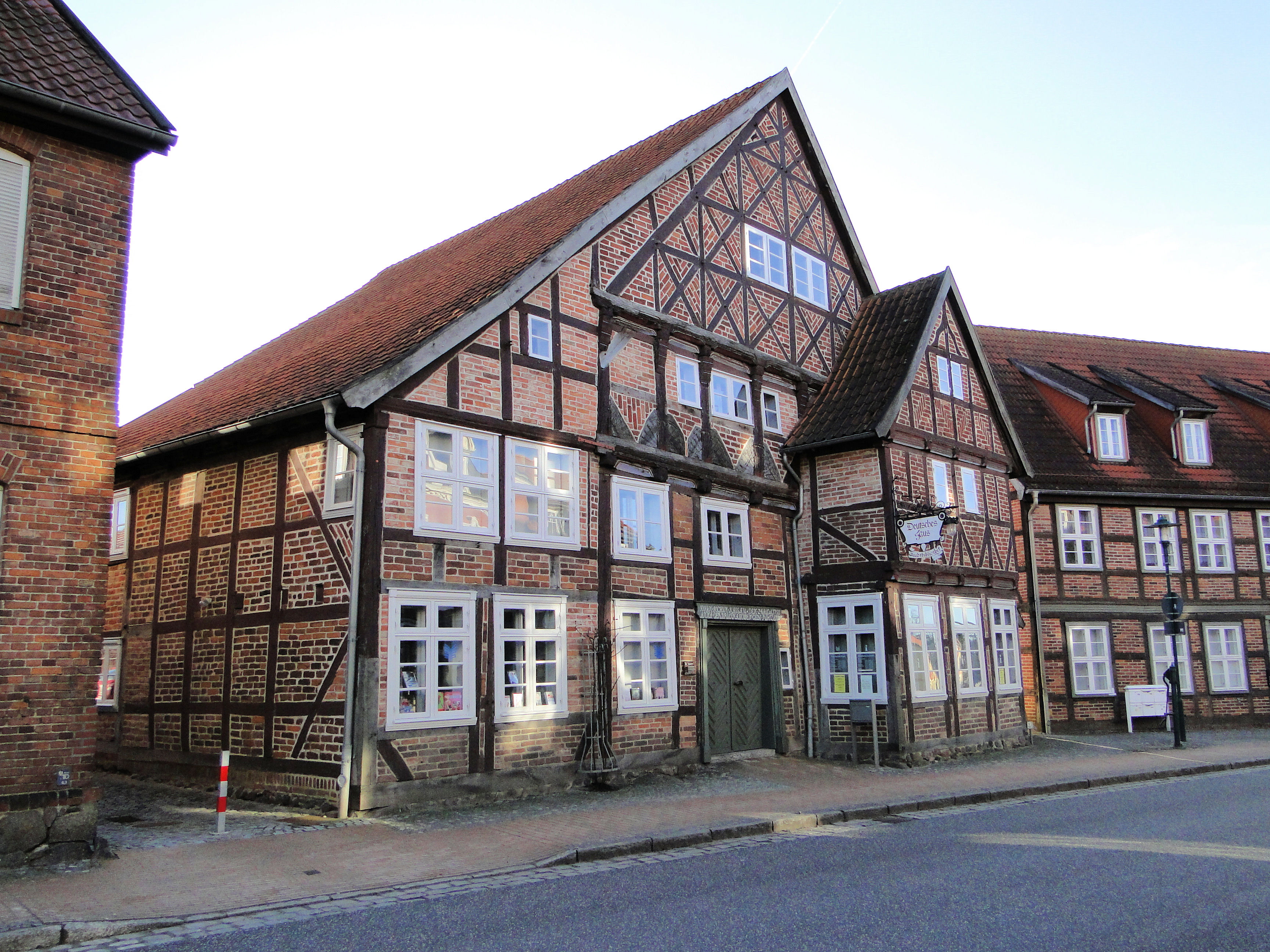 German house in/near Rehna, district Nordwestmecklenburg, Mecklenburg-Vorpommern, Germany